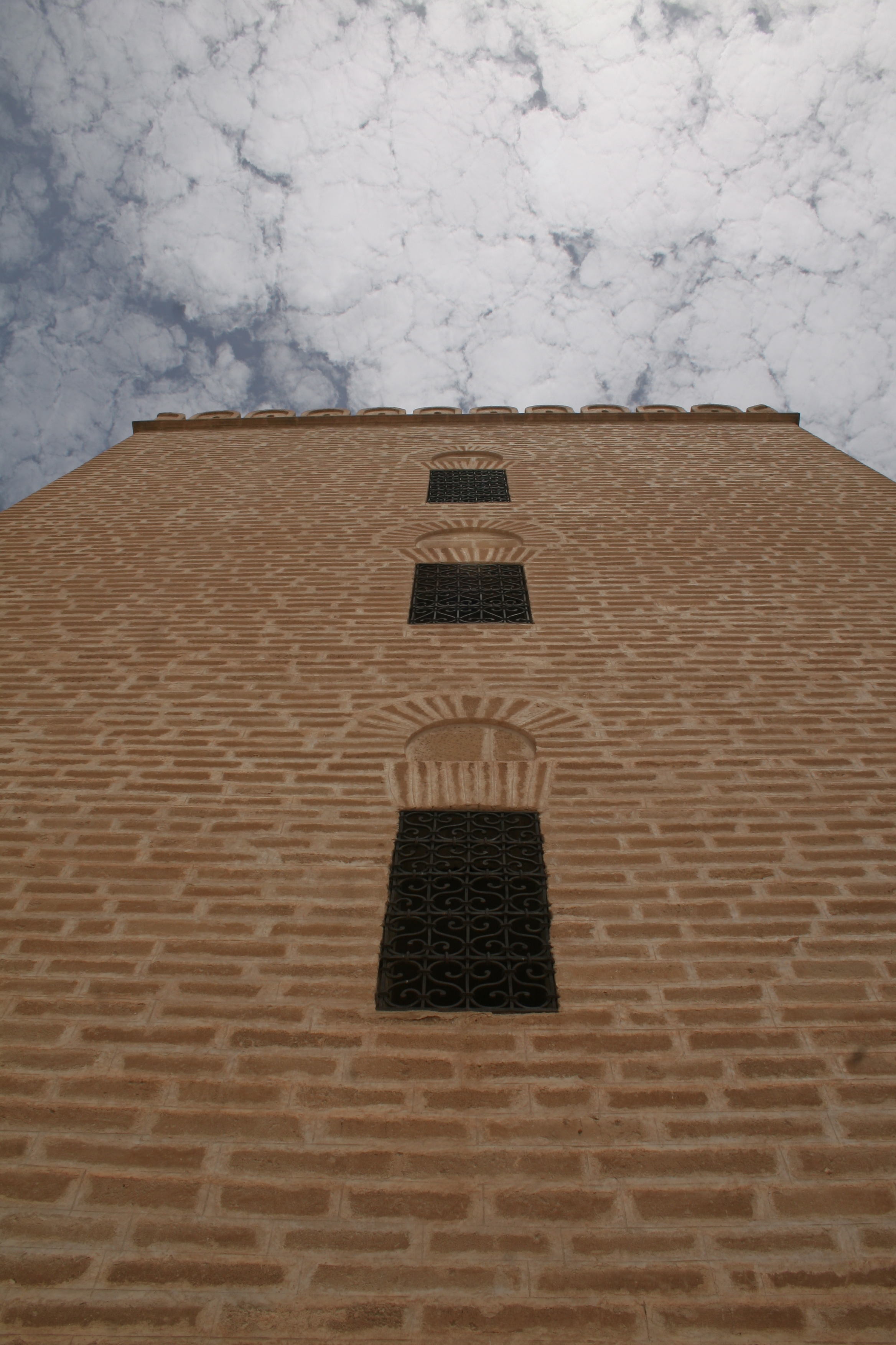 Wall of the Great Mosque of Kairouan minaret